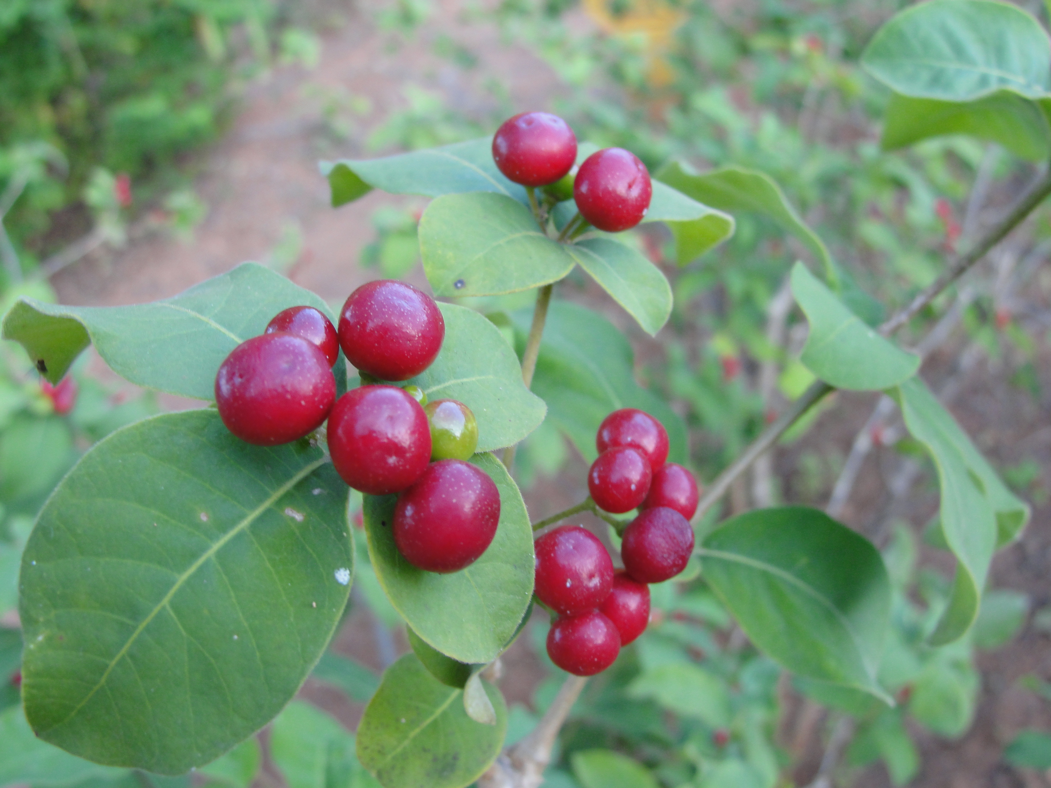 A Rauvolfia tetraphylla fruits. Location: A herbal Garden in Forest Extension Center, Sithar Koyil, Salem, Tamil Nadu, India.Unknown பாம்பு கலா பழங்கள்.